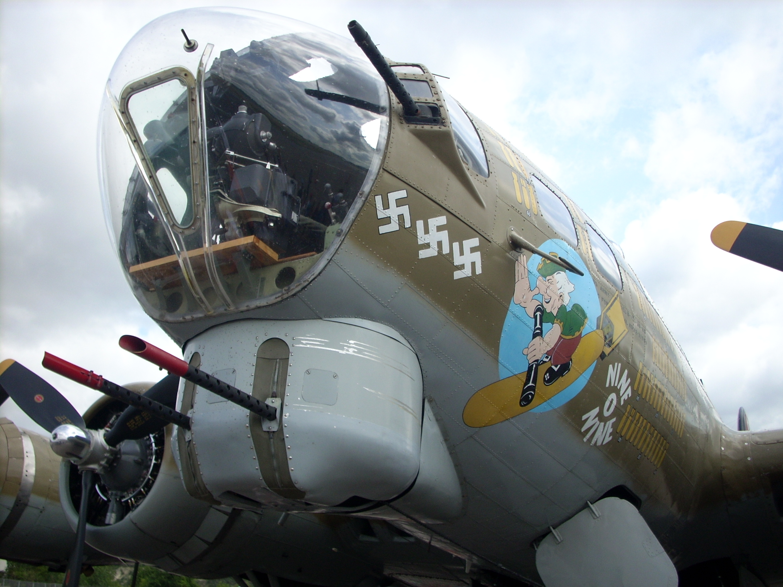 The Collings Foundation's Nine-0-Nine by Zachary Swanson. One can see the Norden bombsight in the nose of the plane.